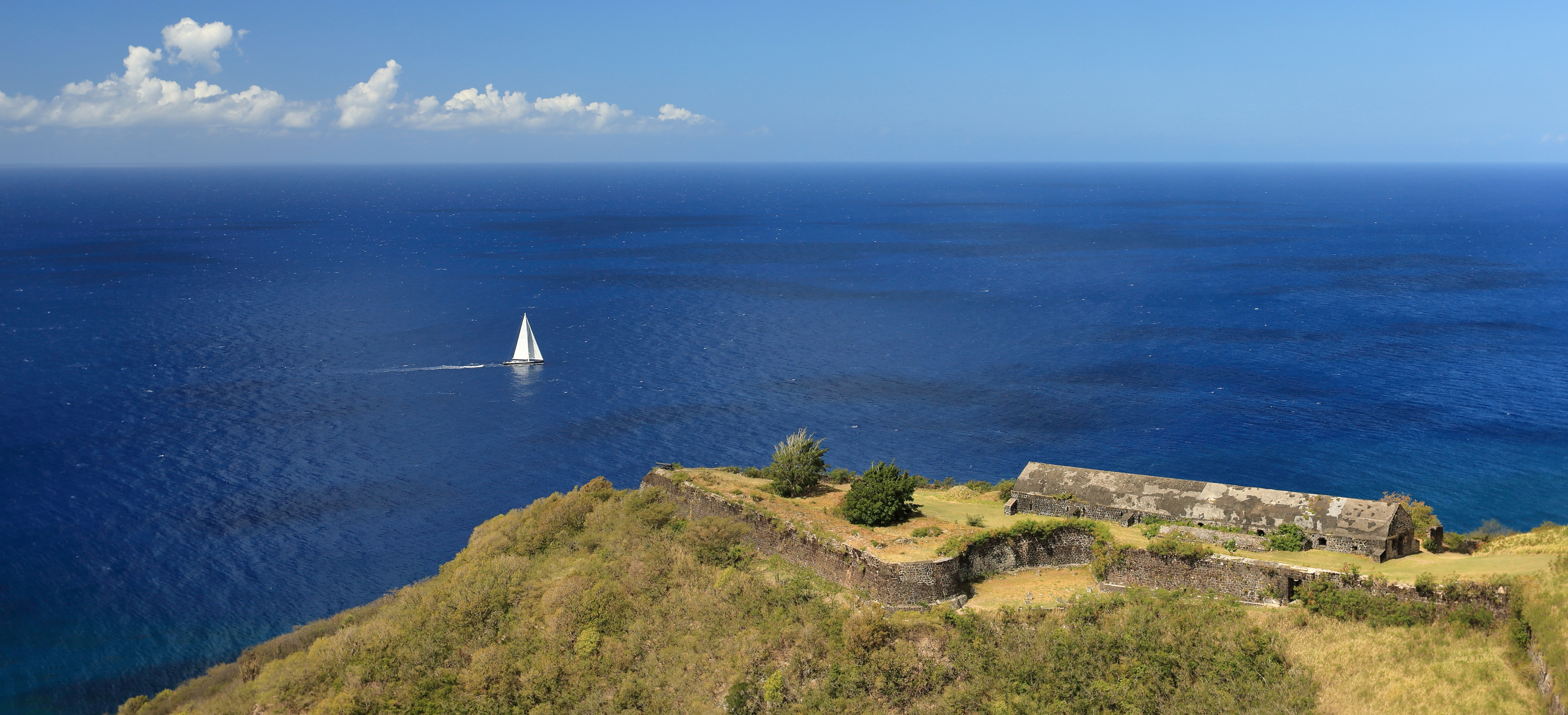 The Brimstone Hill Fortress on the island of St. Kitts, which was recognized World Heritage Site by the UNESCO in 1999.